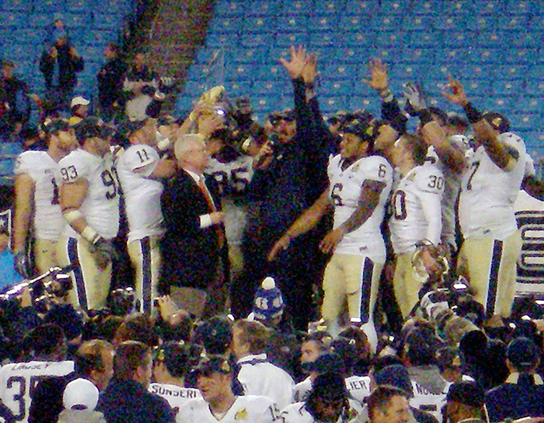 Trophy presentation to the Pitt Panthers football team following their win over North Carolina in the 2009 Meineke Car Care Bowl